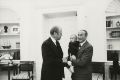 The photo contact sheet, identified as B2348 by the White House Photographic Office (WHPO), is housed at the Gerald R. Ford Presidential Library, a branch of the National Archives and Records Administration (NARA). This file is a 200 dpi photo contact sheet having images from roll of film B2348 of the August 9, 1974 - January 20, 1977 Gerald R. Ford White House Photographic Office Series A0001-A9999 and B0001-B2886 photographs. The date on the photo contact sheet is the date the roll of film was processed, not necessarily the date the photographs were taken. See table below for additional details.